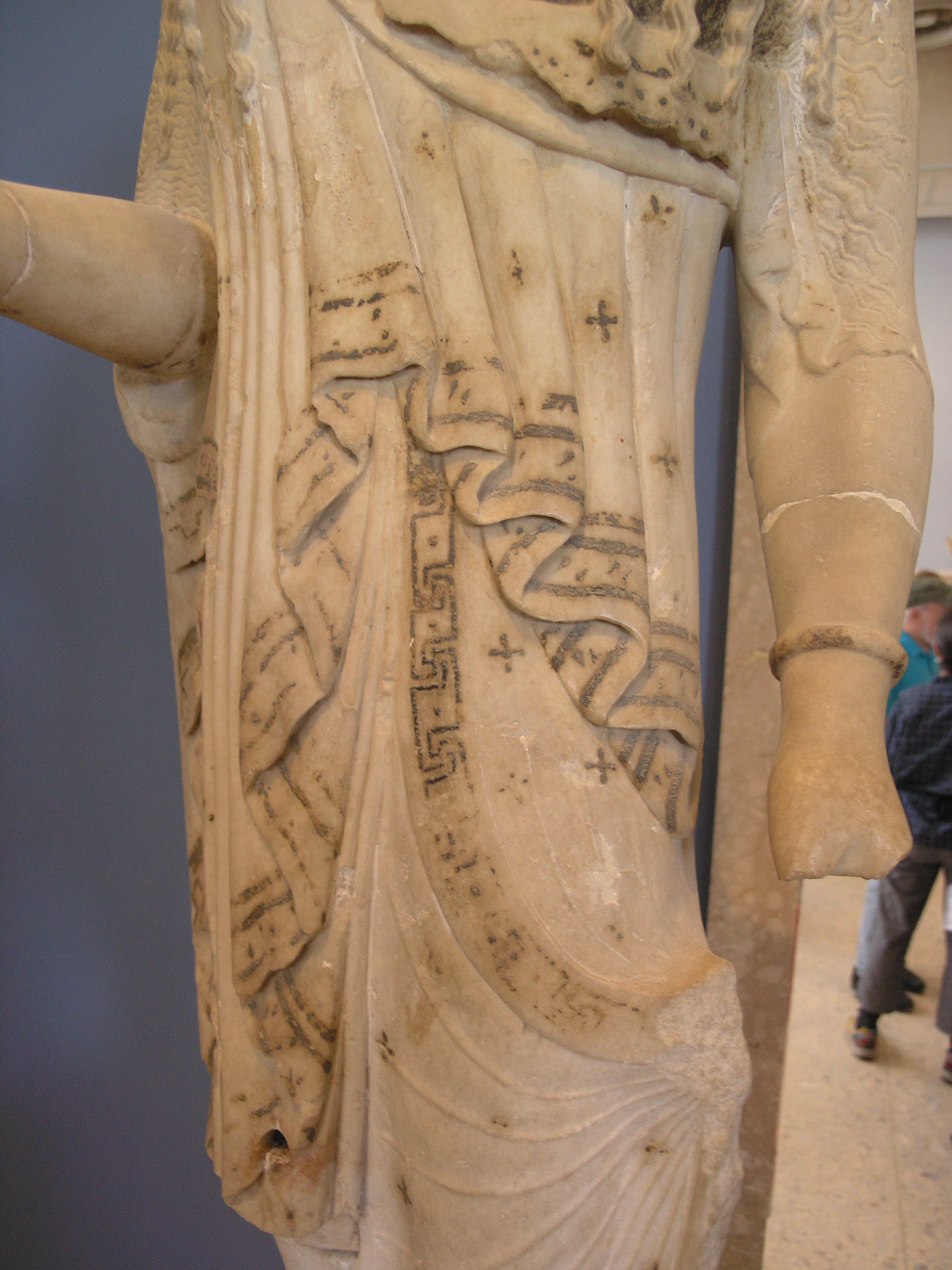 Kore, ca. 530-520 BC, found on the Acropolis